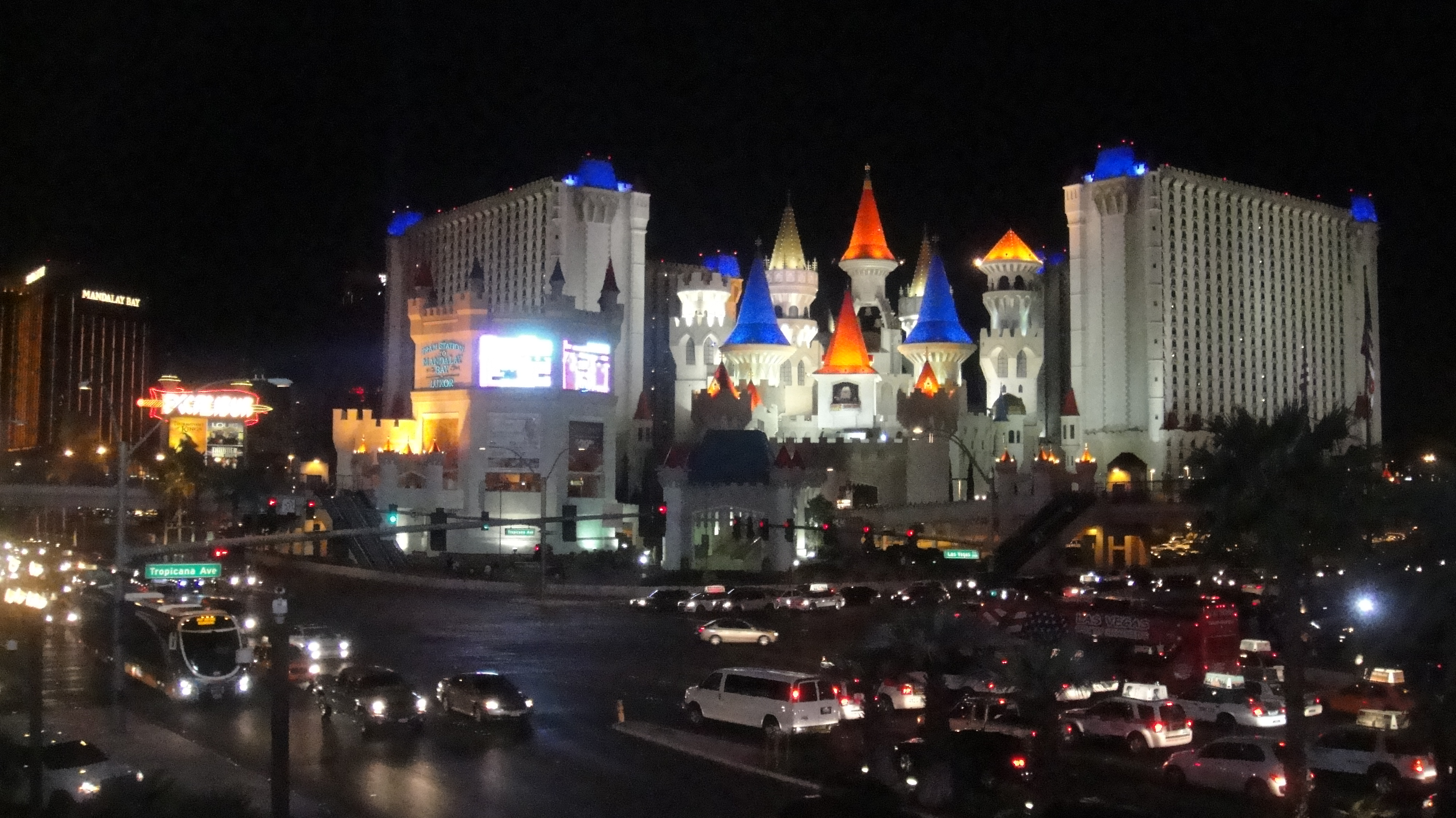 Description: :Excalibur from Tropicana Ave. Author: Josh Truelson [cooljuno411] Date Created: Sunday, March 28, 2010 [2010-03-28] Location: Las Vegas Stip, Las Vegas, Nevada Event